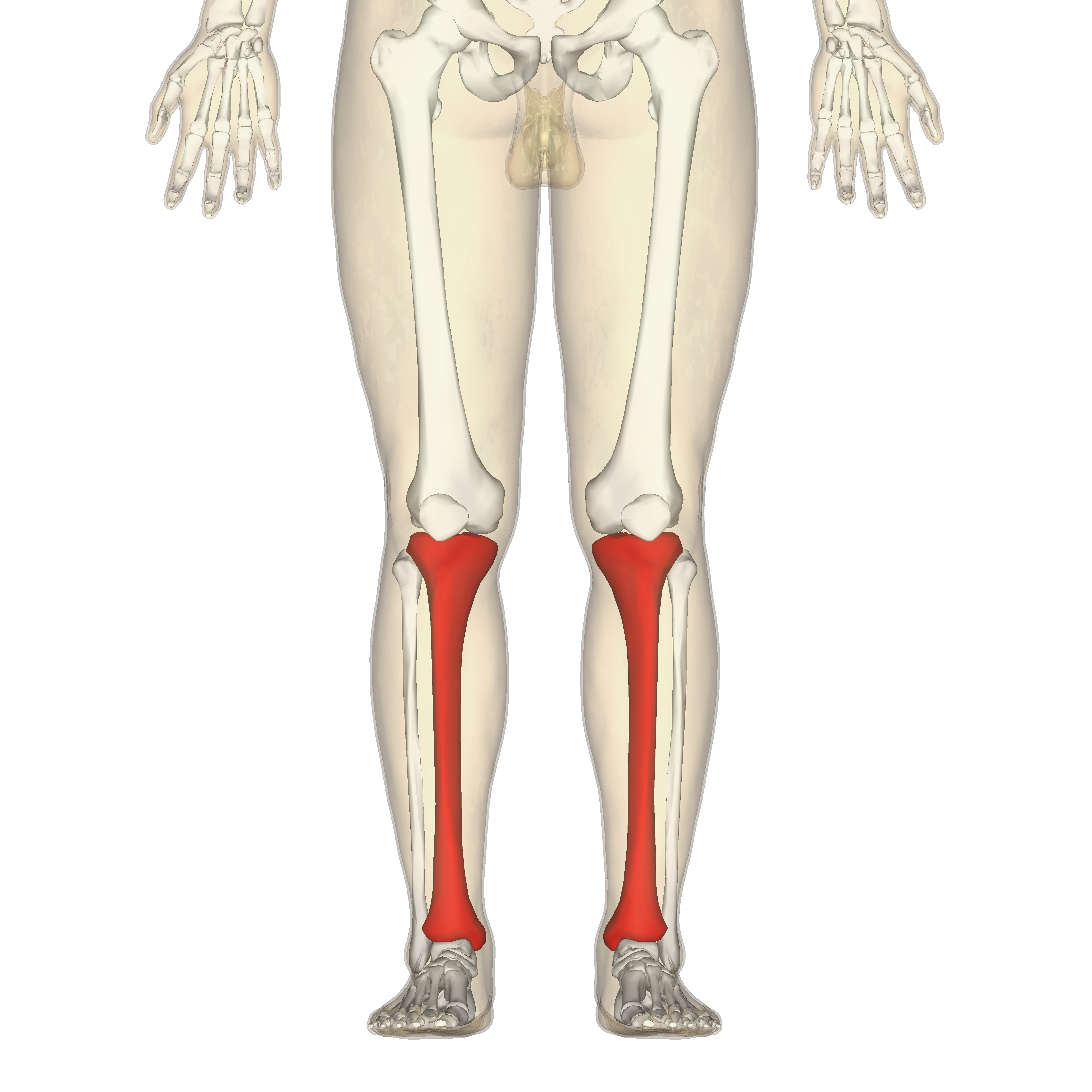 Tibia